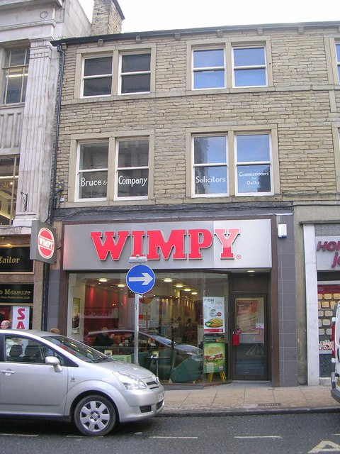 Wimpy - Cloth Hall Street